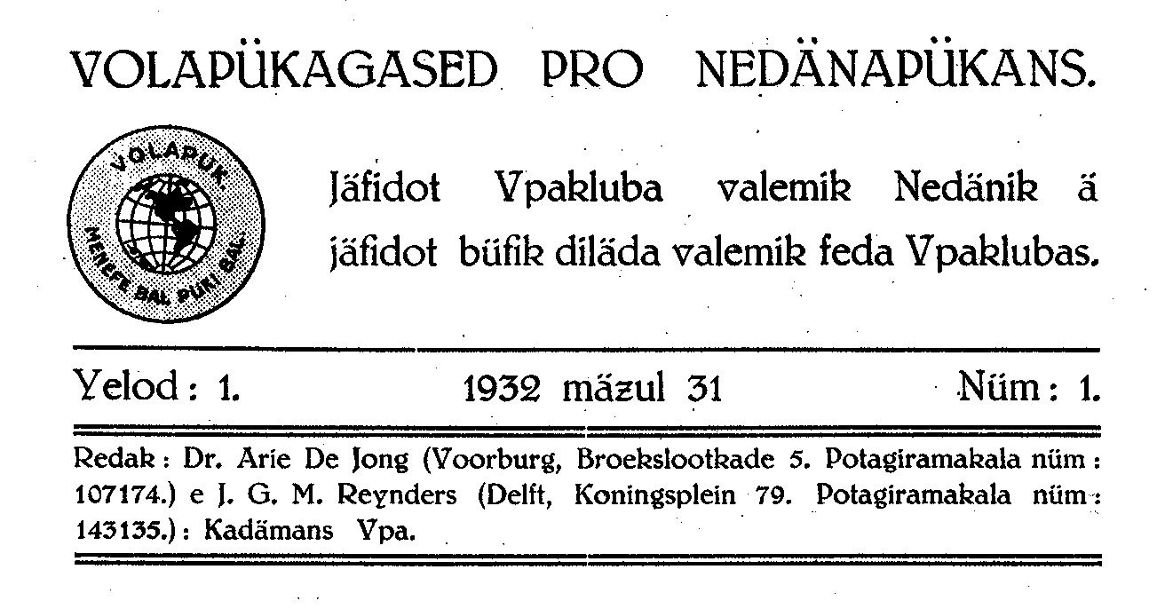 Frontispiece of the first issue of the Volapükagased pro Nedänapükans, a Dutch Volapük gazette.